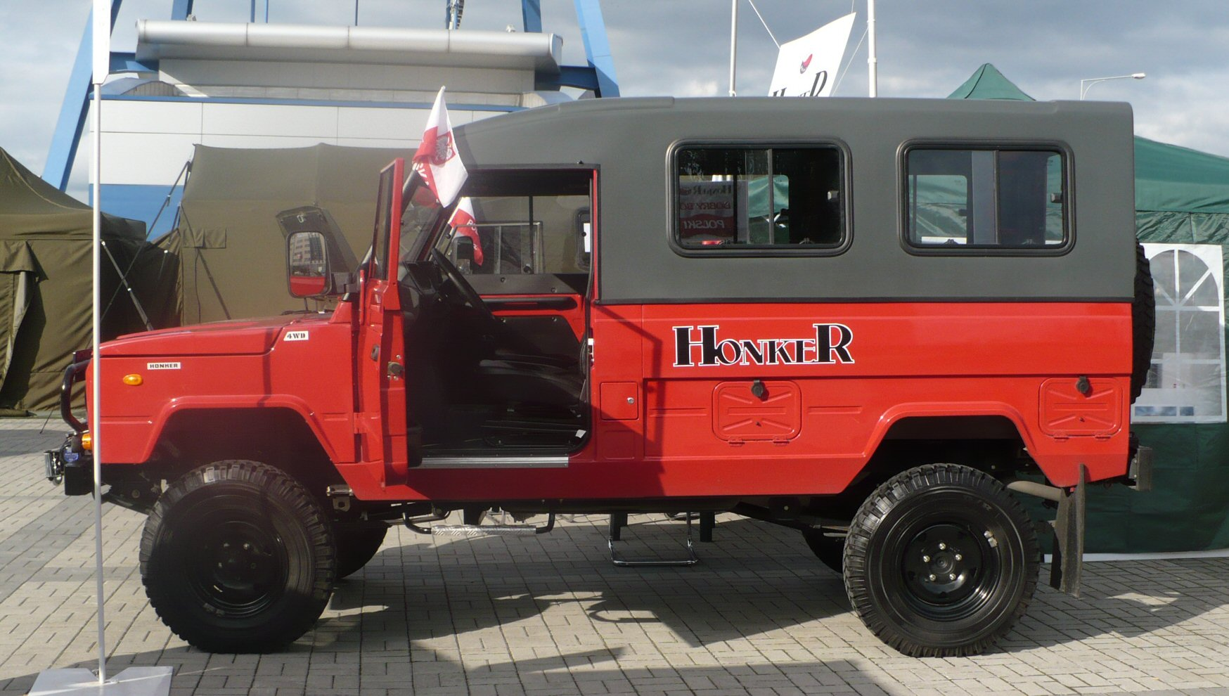 DZT Honker.